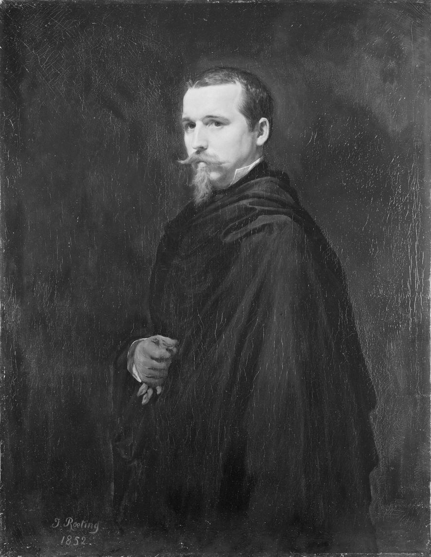 Julius Amatus Roeting (1822-1896): portrait of Christian Mohr, 1852, kept at Cologne City Museum. Christian Mohr (1823-1888) was a German sculptor and is famous for being one of the first and most important 'Dombildhauer' of Cologne Cathedral during the 19th century.